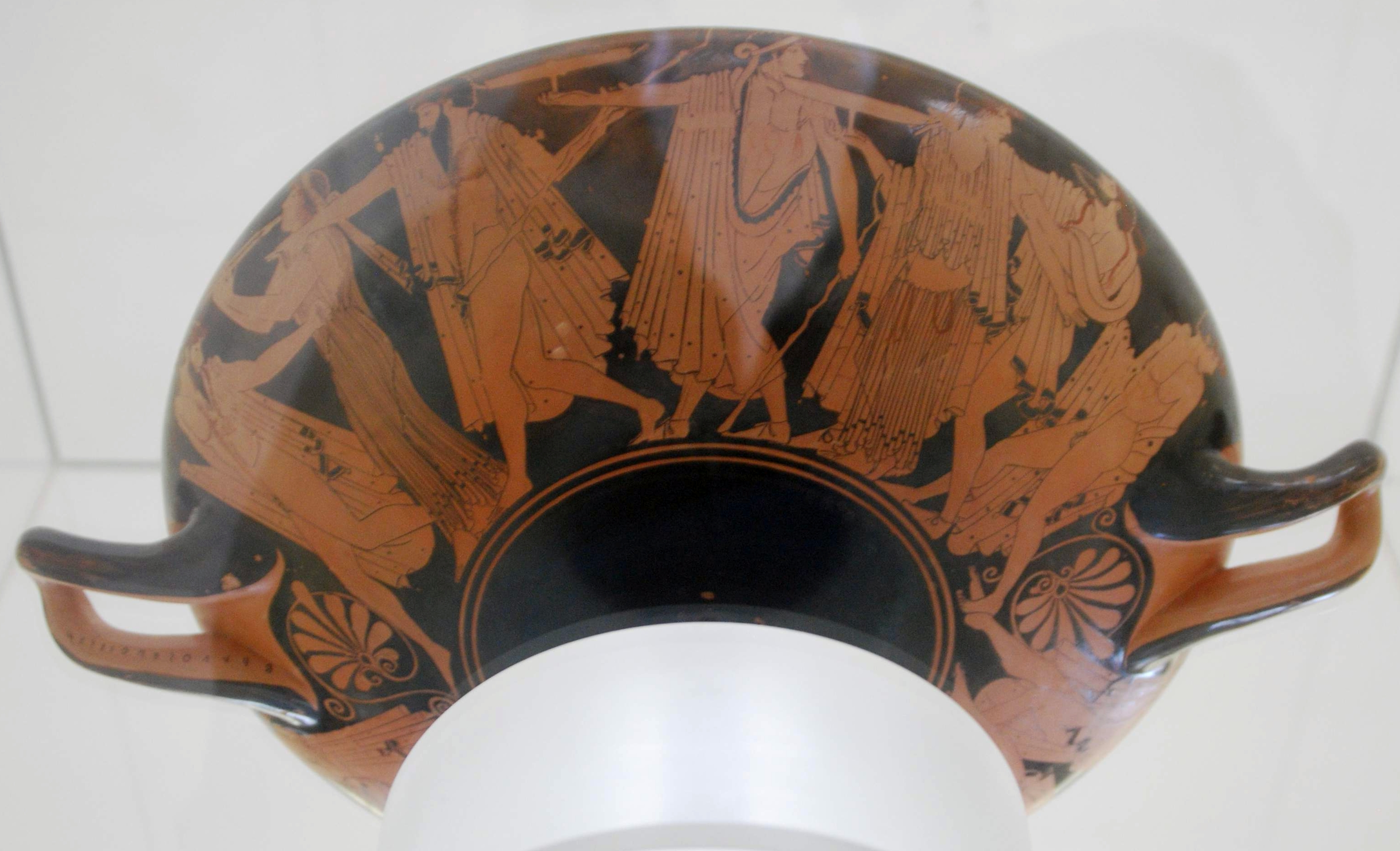 Attic Kylix made (signed) by the potter Brygos, painted by the Brygos painter; Tondo: vomiting young man at a symposium, head held by a blonde Hetaira, outsites: Komasts; Martin von Wagner Museum Würzburg (Inventarnumber HA 428 [= L 479]; High 14 cm, Diameter 32,2 cm